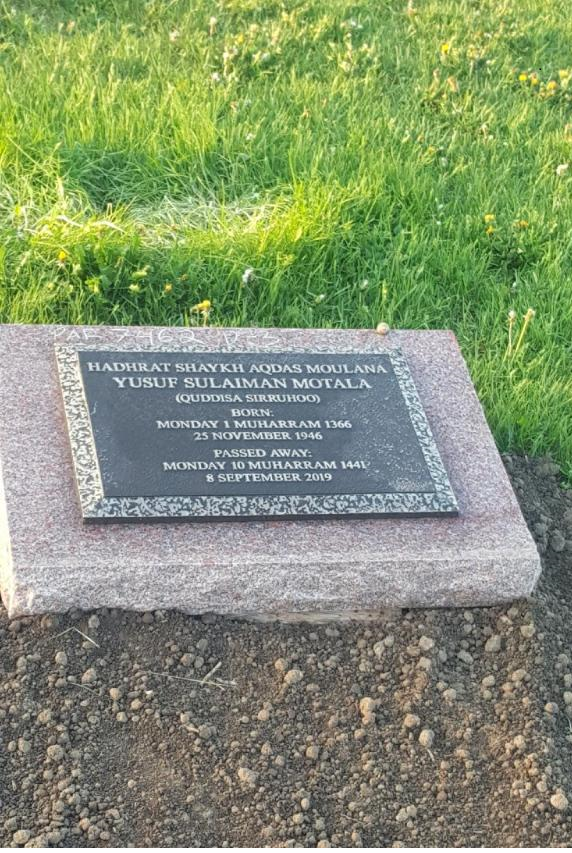 Gravestone of Shaykh Yusuf Motala - Burried at Glenview Memorial Gardens, 7541 hwy 50, Woodbridge Ontario, L4H 4W7 Canada